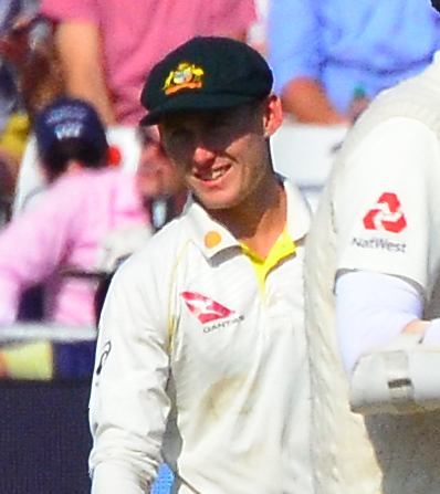 England batsman Stuart Broad surrounded by Australians as he prepares to face his first ball after coming in on Day 4 of the 3rd Test of the 2019 Ashes at Headingley